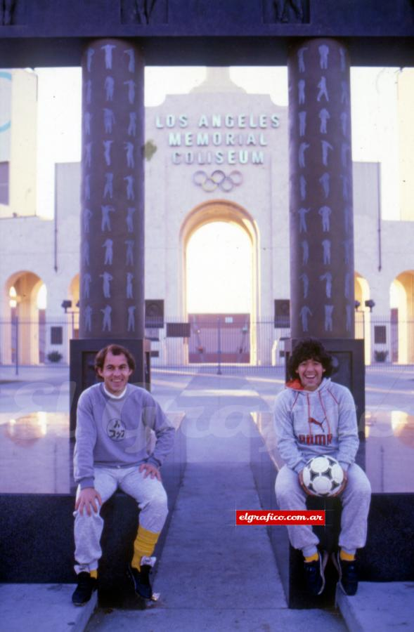 Ricardo Bochini and Diego Maradona posing at Los Angeles Memorial Coliseum, where Argentina played a friendly match v Mexico.